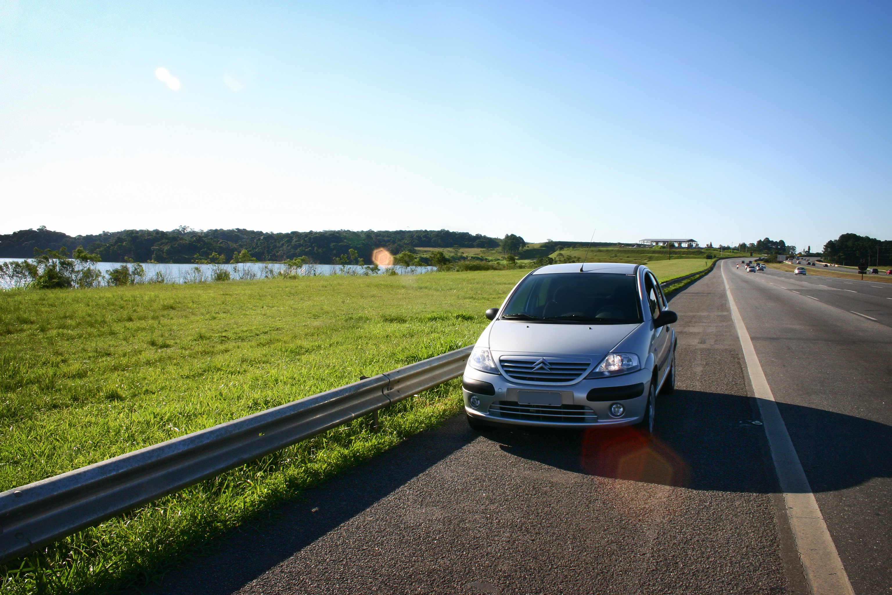 Citroën C3